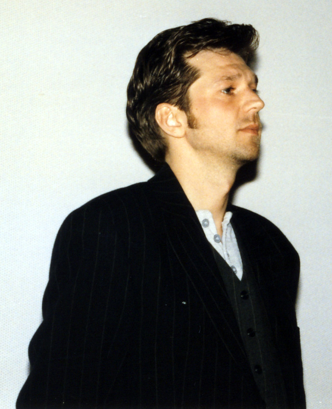 Kai Wiesinger. Photo was taken at the Cinedom Movie Theater in Cologne, Germany. Mr. Wiesinger was at the premiere of his Movie "14 Tage lebenslaenglich"